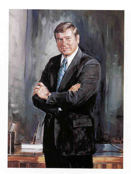 Official Portrait of Chairman Dan Rostenkowski